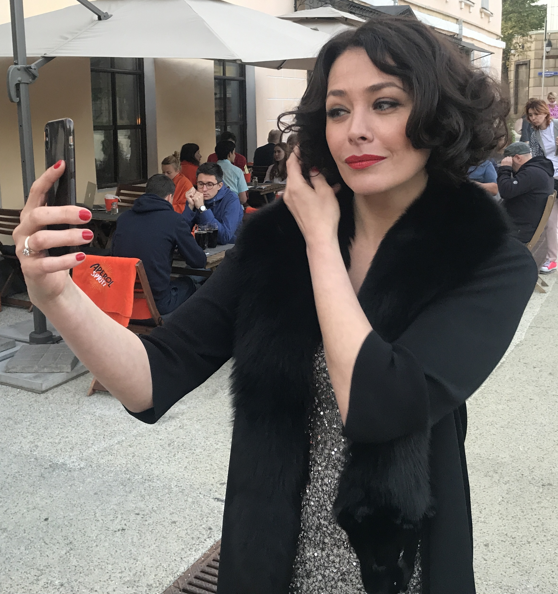 Ekaterina Volkova before the concert in the cafe Imagine on Pokrovka Street in Moscow